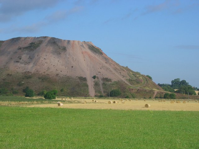 Shale bing, Niddry. The eastern end of this shale bing stretches into the square, which also contains: some arable land, a small wood and the M9. View north from NT102741. The shale is baked oilshales, the remnants after the oil has been removed.